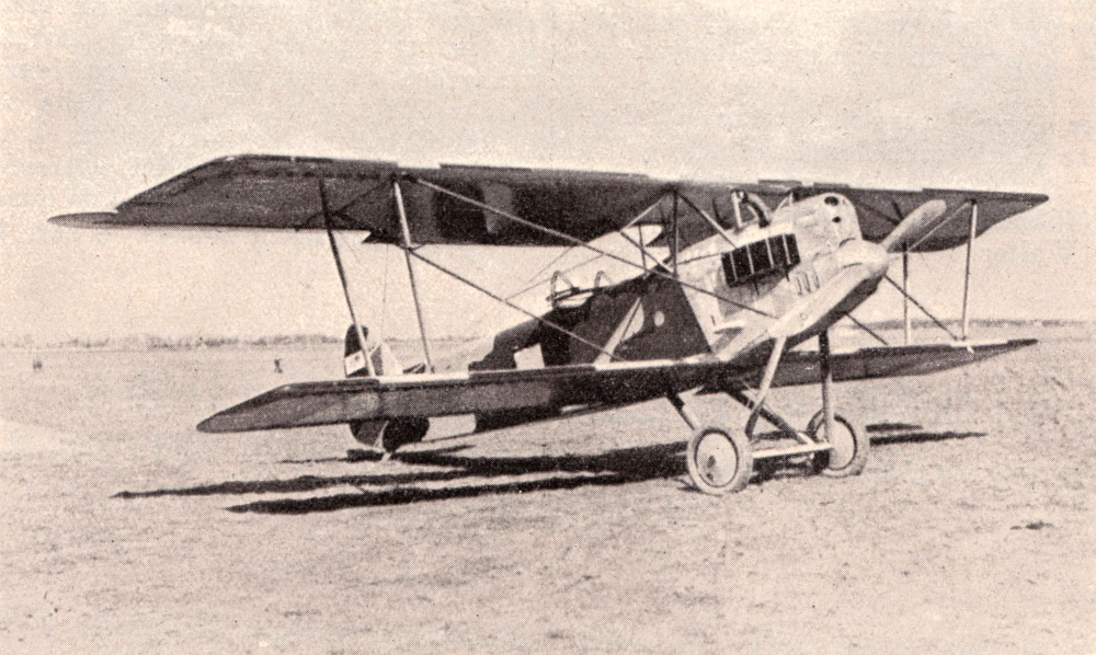 Aero A.12 was a Czechoslovakian biplane light bomber